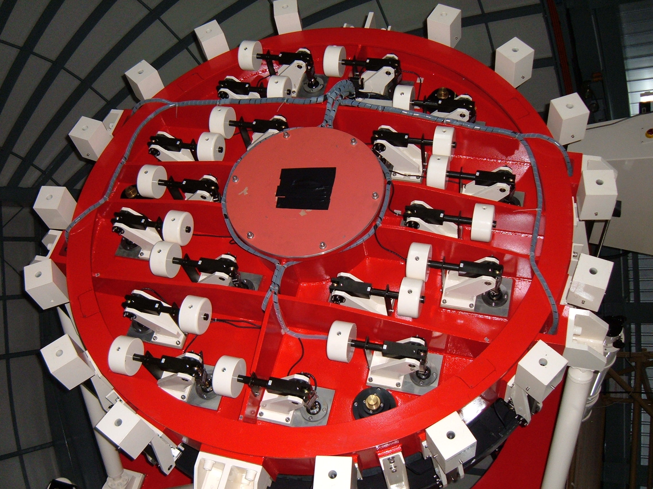 The underside of the Microlensing Observations in Astrophysics (MOA) telescope. The levers are designed to stop deformation of the telescope mirror.